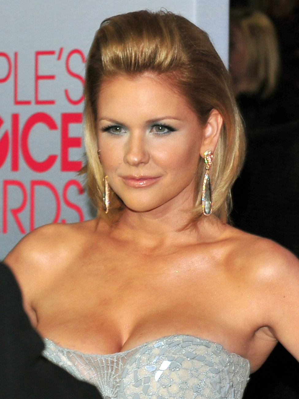 Carrie Keagan on the red carpet at the 38th People's Choice Awards on January 11, 2012, at the Nokia Theatre in Los Angeles, California. (JJ Duncan/ )